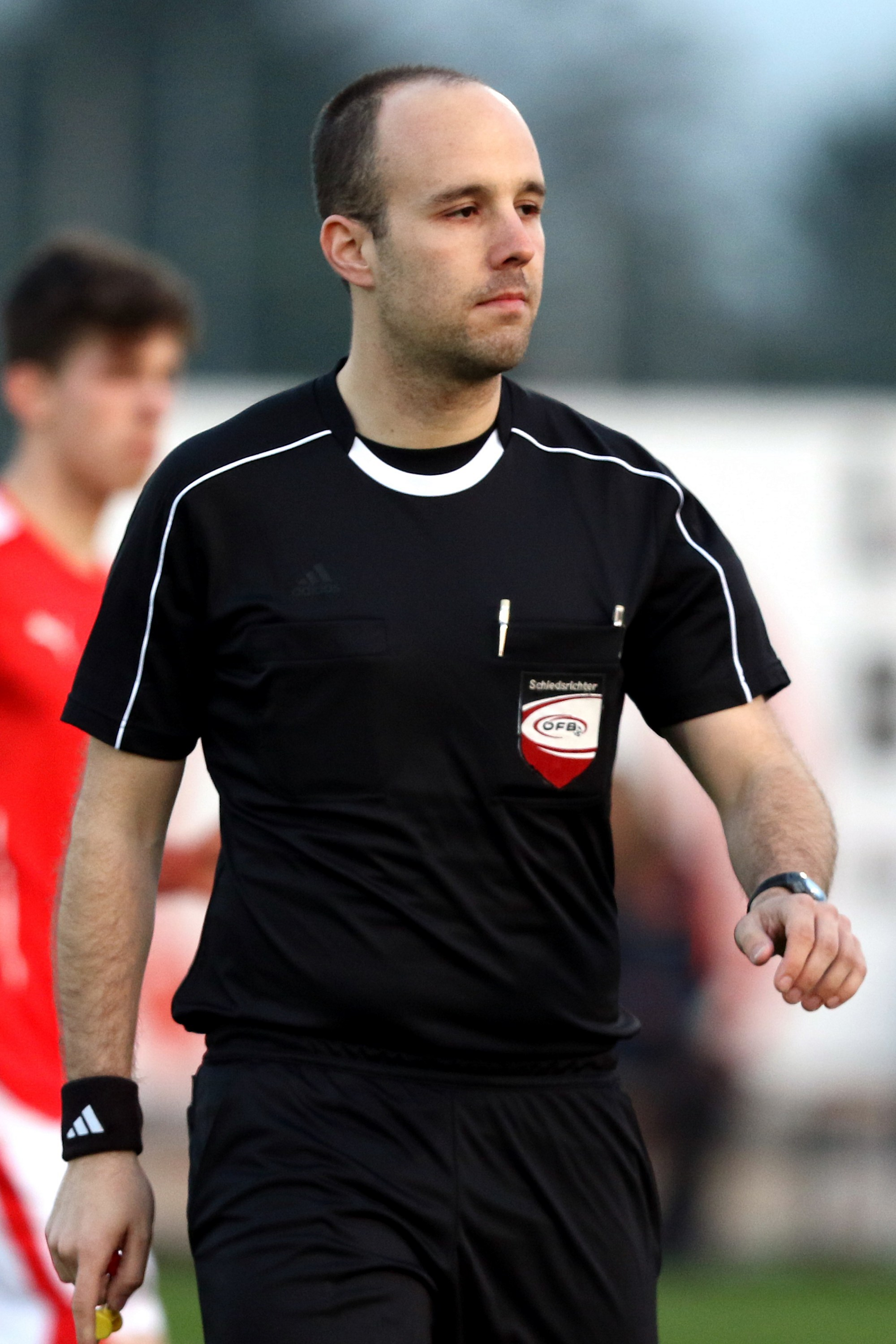 Friendly match Austria national under-18 football team (red shirts) vs. Netherlands national under-18 football team (blue shirts) 1–1 (1–0) on 2017-03-23 in Eggendorf – The photo shows referee Lukas Gnam.